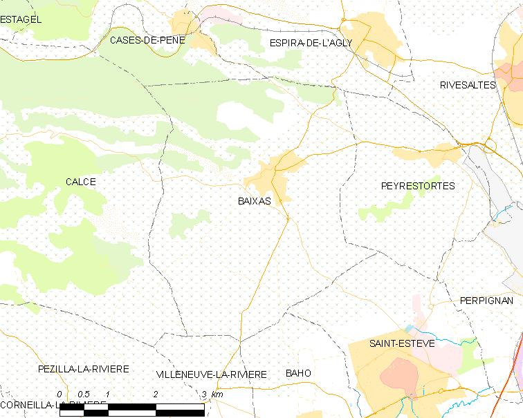 Map of French municipality